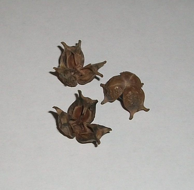 Buxus fruits